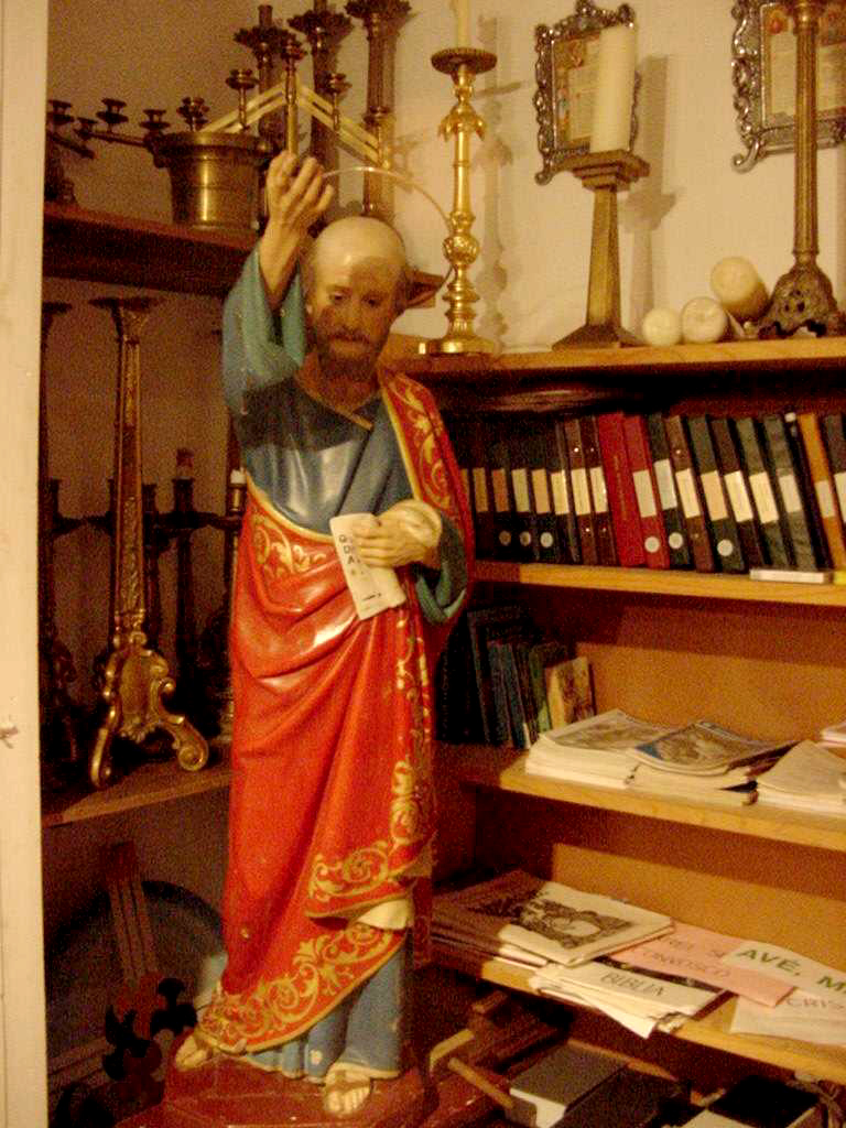 Image of Saint Peter, from the Museum chamber of the Church of São Pedro da Ribeirinha, Ribeirinha, Angra do Heroísmo, Terceira (Azores), Portugal